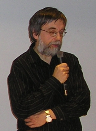 Finnish writer and ecophilosopher Olli Tammilehto (2006). Author: Olli Hämäläinen. Uploaded with permission.